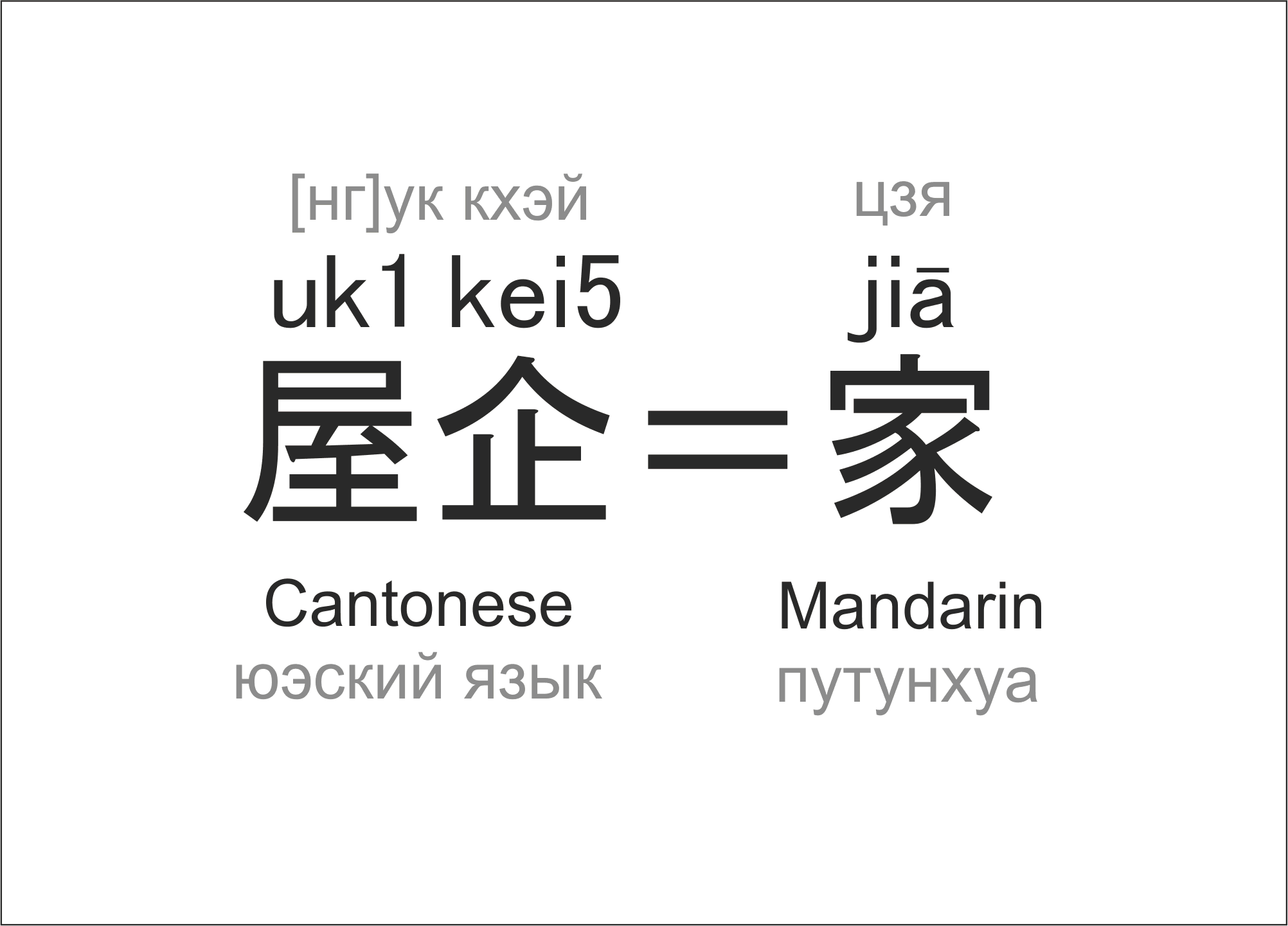 In Mandarin and Cantonese (Yue language) the word “house” uses entirely different both hanzi and pronunciation. Used to show obvious differences between two languages.